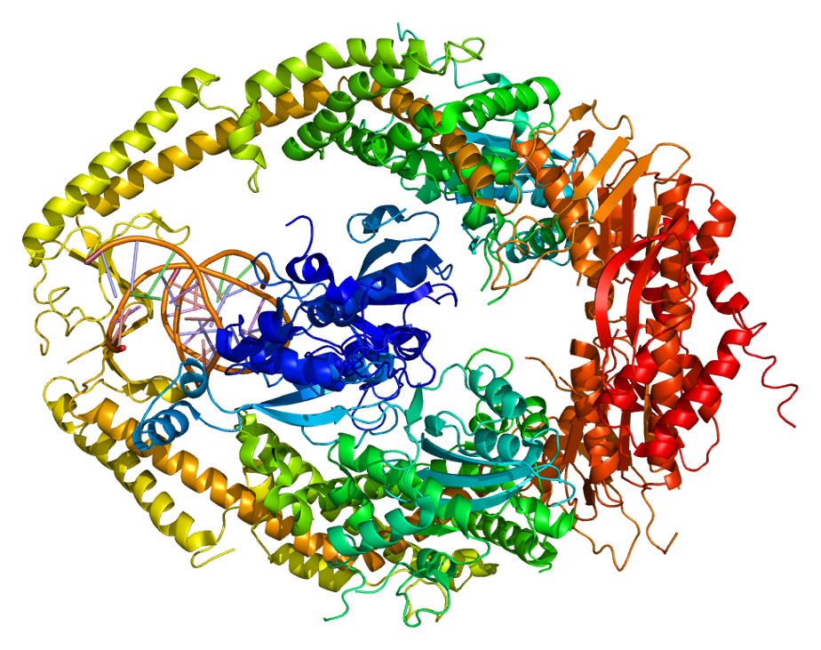 Structure of the MSH2 protein. Based on PyMOL rendering of PDB 2o8b.